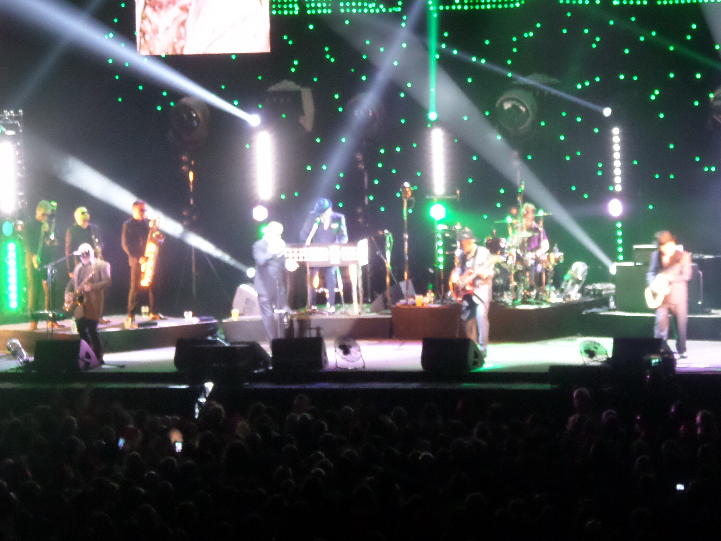 Madness at performing live at Manchester Arena in 2014